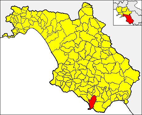 Locator map of the municipality of Centola (red) within the Province of Salerno